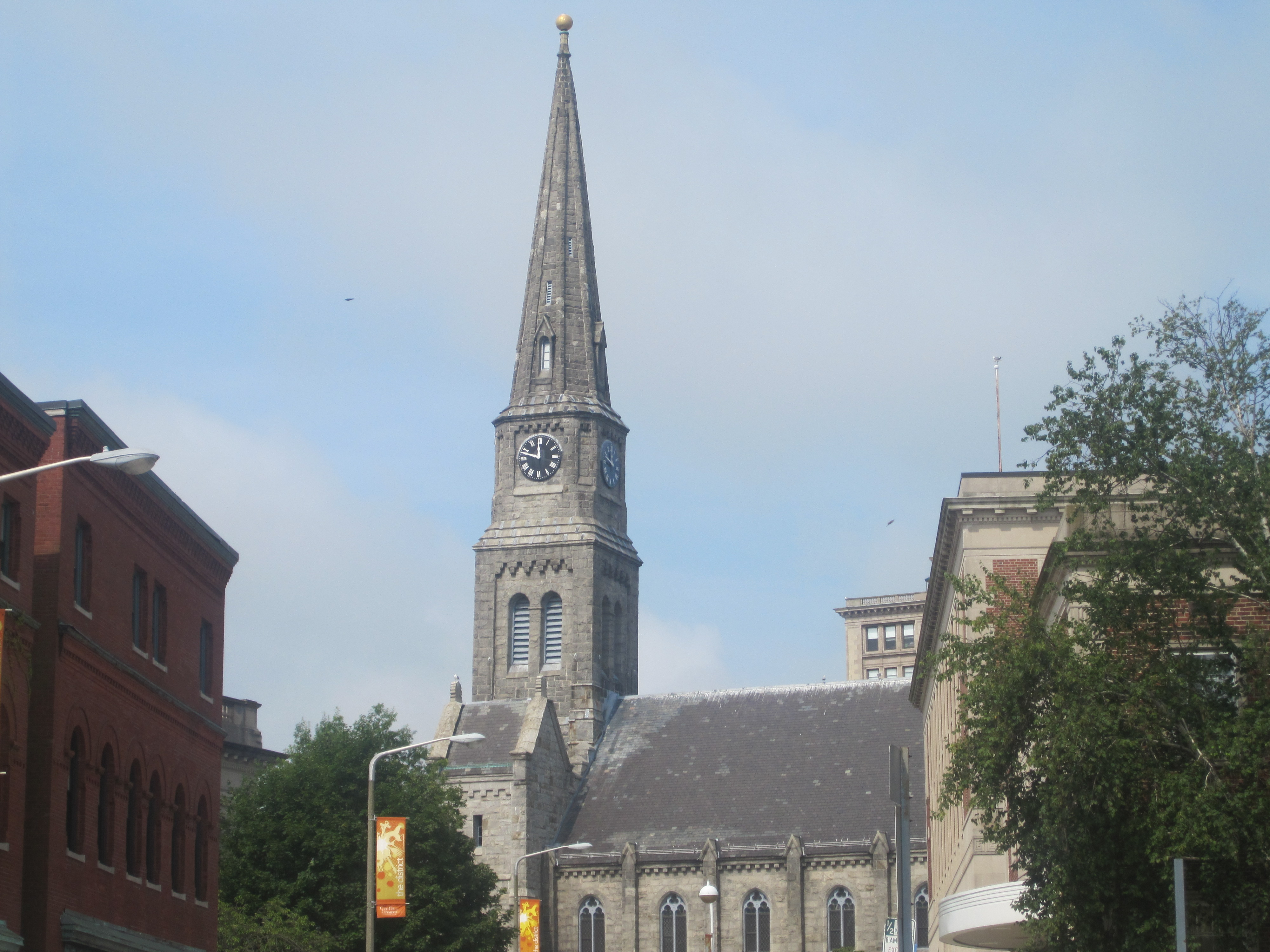 Historic Church of Christ in New London, Connecticut